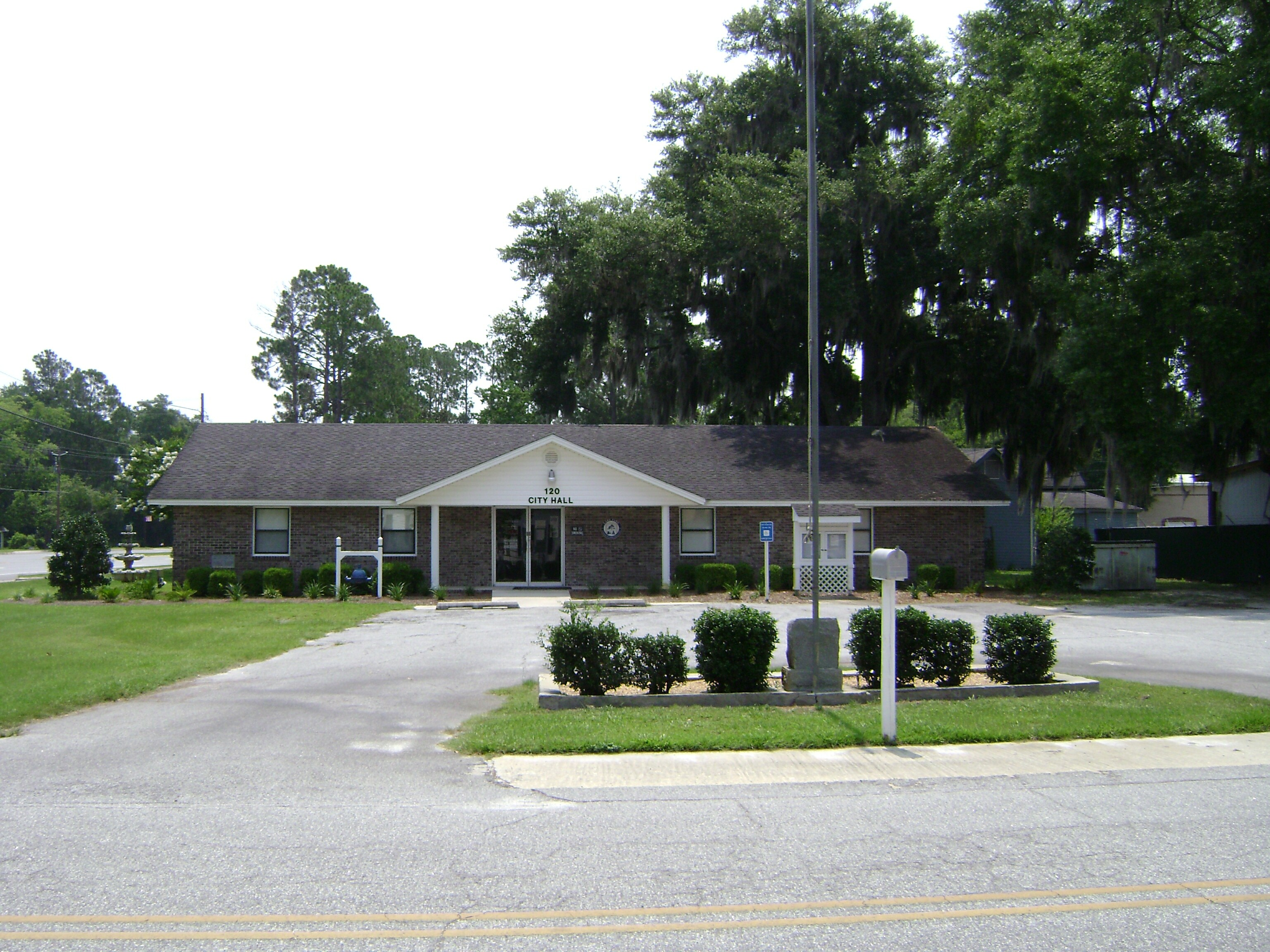 Lake Park City Hall in Lake Park, Lowndes County, Georgia. Georgia State Route 376 can be seen on the left hand side of photo. Located on West Marion Ave. (US-41/GA-376) at N. Essa St.